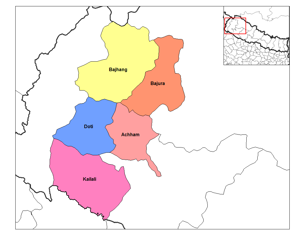 Map of the districts of Seti Zone (wp-EN) in Nepal. Created by Rarelibra 19:59, 18 September 2006 (UTC) for public domain use, using MapInfo Professional v8.5 and various mapping resources.